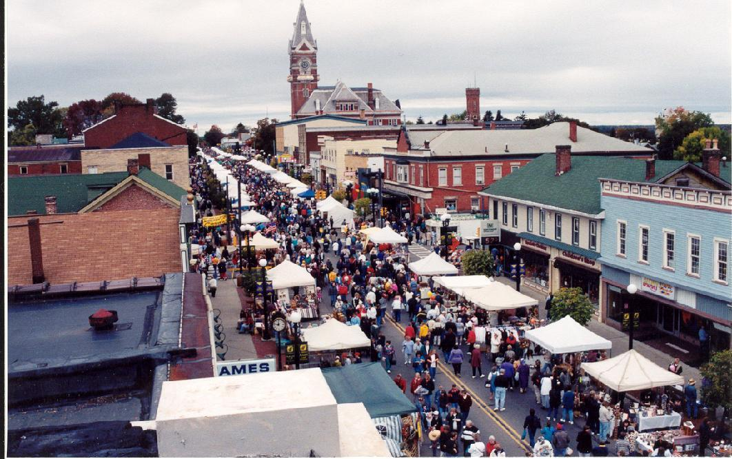 In this picture the crafters day event, in the nine day long celebration, is a anticipated day due to the many different things one could purchase. Anything from food to furniture can be found on this day.